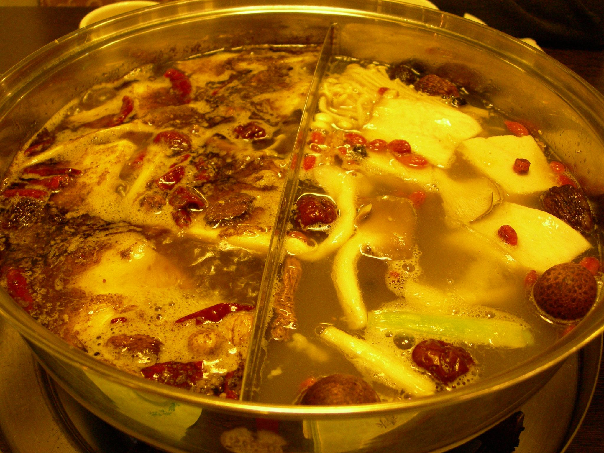 Taiwan food in Adonis Chen's photo